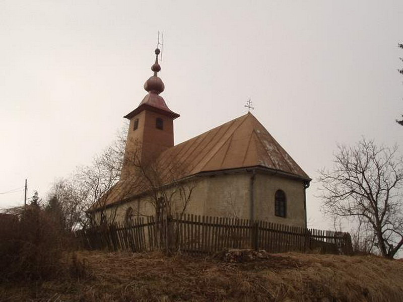 Lipnica - Church